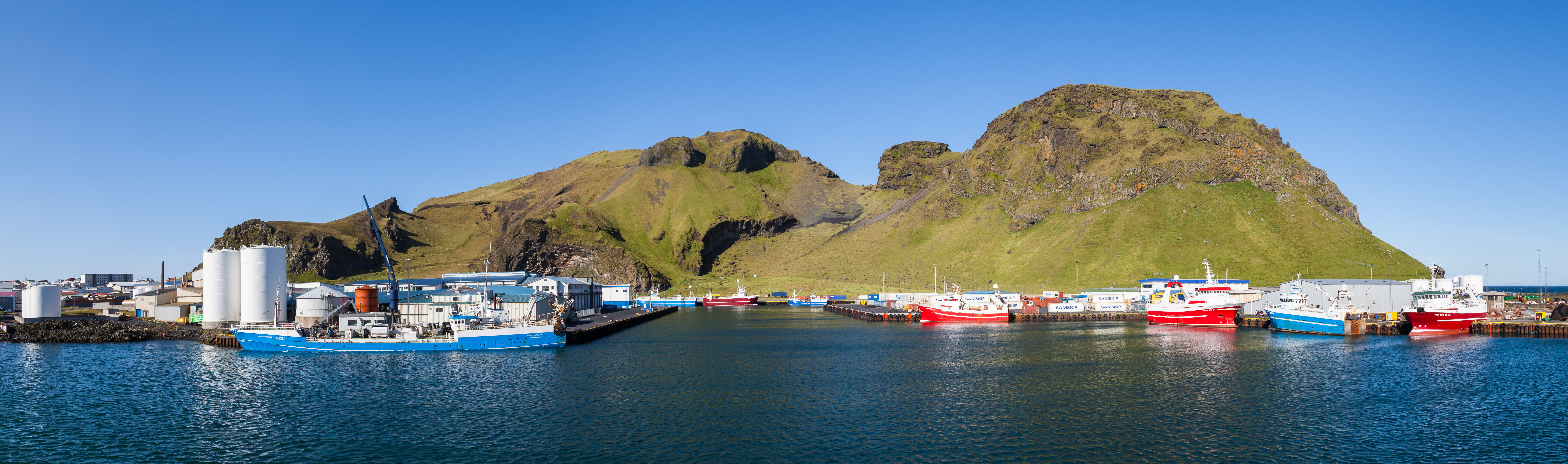 Vestmannaeyjar harbour, Heimaey, Westman Islands, Suðurland, Iceland.